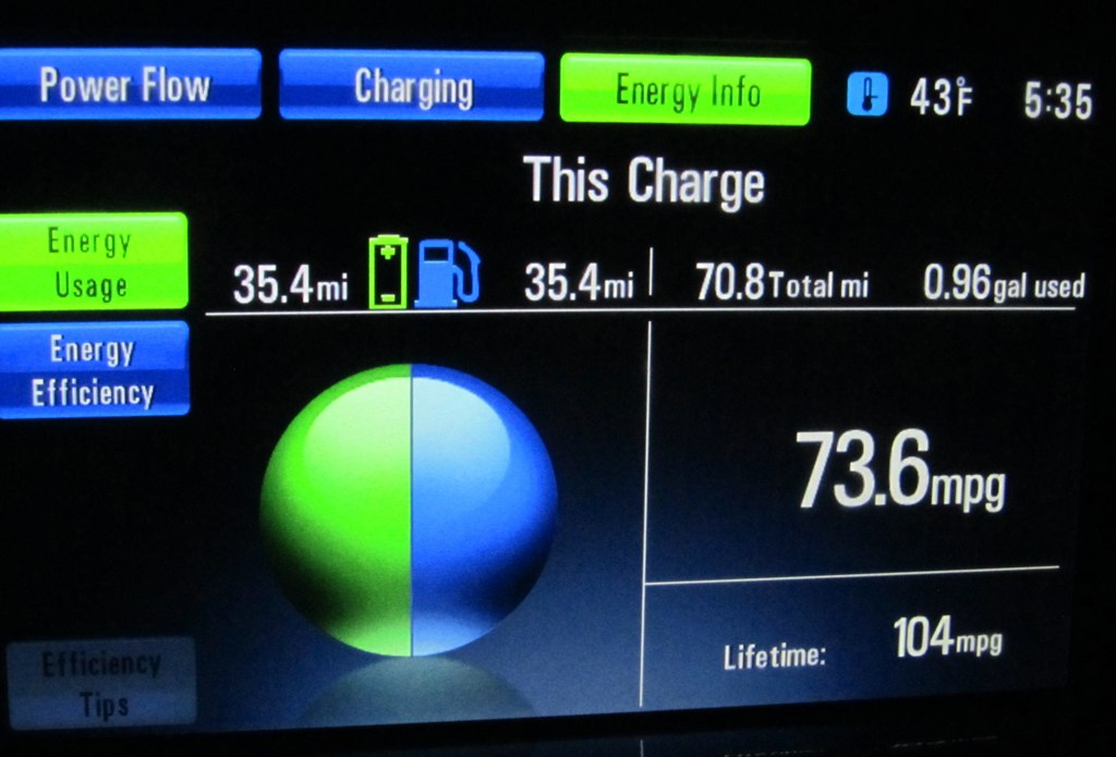 Felix Kramer's Chevrolet's Volt dashboard digital display after a 70.8 mile drive, half on electricity